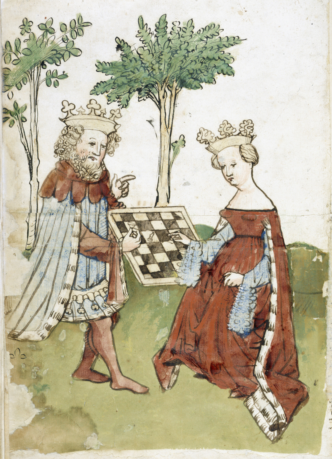 King and queen playing chess [Whole folio] King and queen playing chess. An illustration from 'Das Schachzabelbuch'; a paraphrase in German verse by von Ammenhusen from the Latin of Cessolis